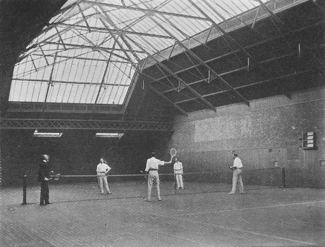 Original Description: "The Last Match on the old Hyde Park Court." Depicted players (in white, left to right): "Tom" Fleming (I don't have more information about him) George Miéville Simond (1867-1941), English tennis player Charles Francois Simond (1873-1957), English tennis player W.F. Calderon (I don't have more information about him)